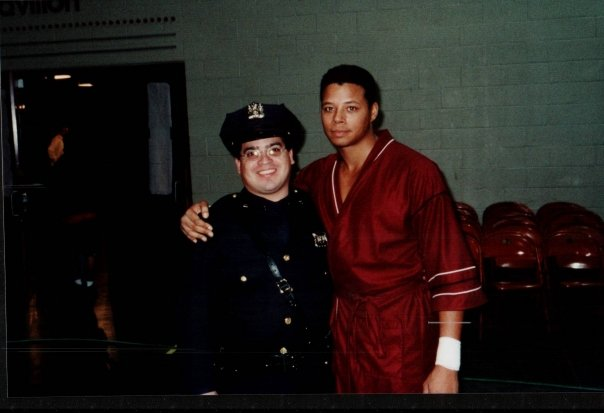 Terrence breaking during a cut with Sam Olivares, who was in character as a New York cop.